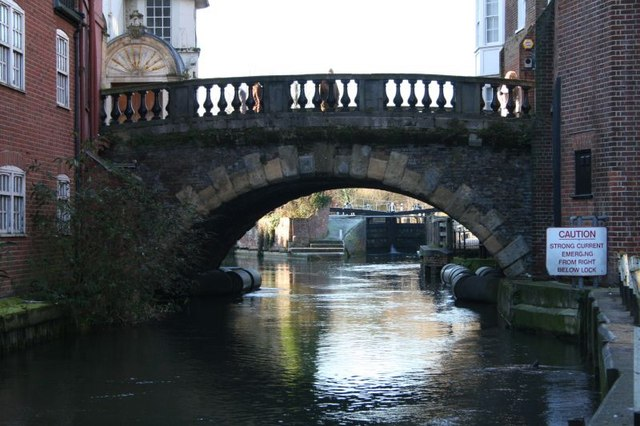 Lock through the bridge Looking through Northbrook Street bridge at Newbury lock.